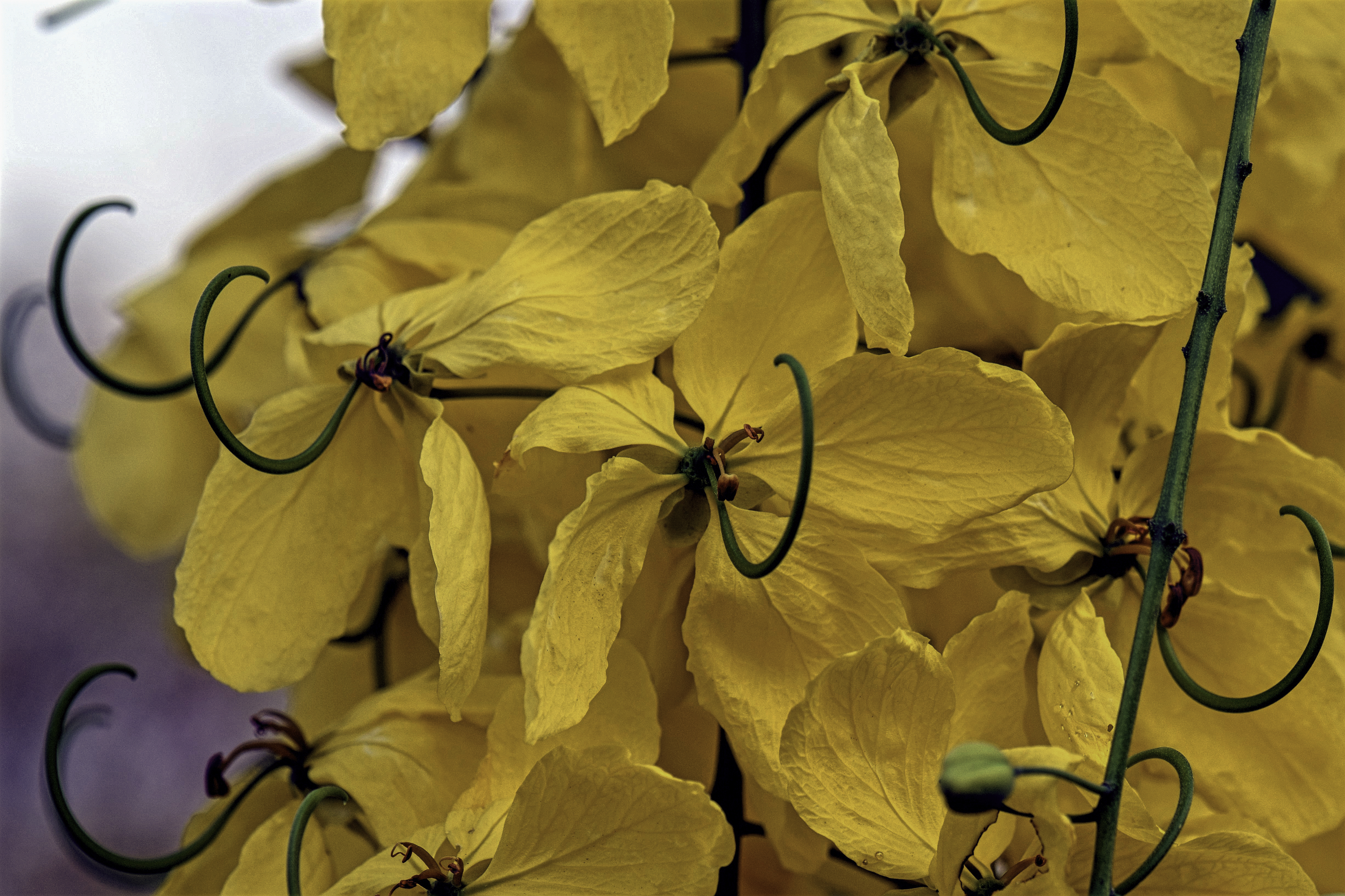 Koelreuteria paniculata (Goldenrain Tree) flowers in Tak City, Tak Province, Thailand.